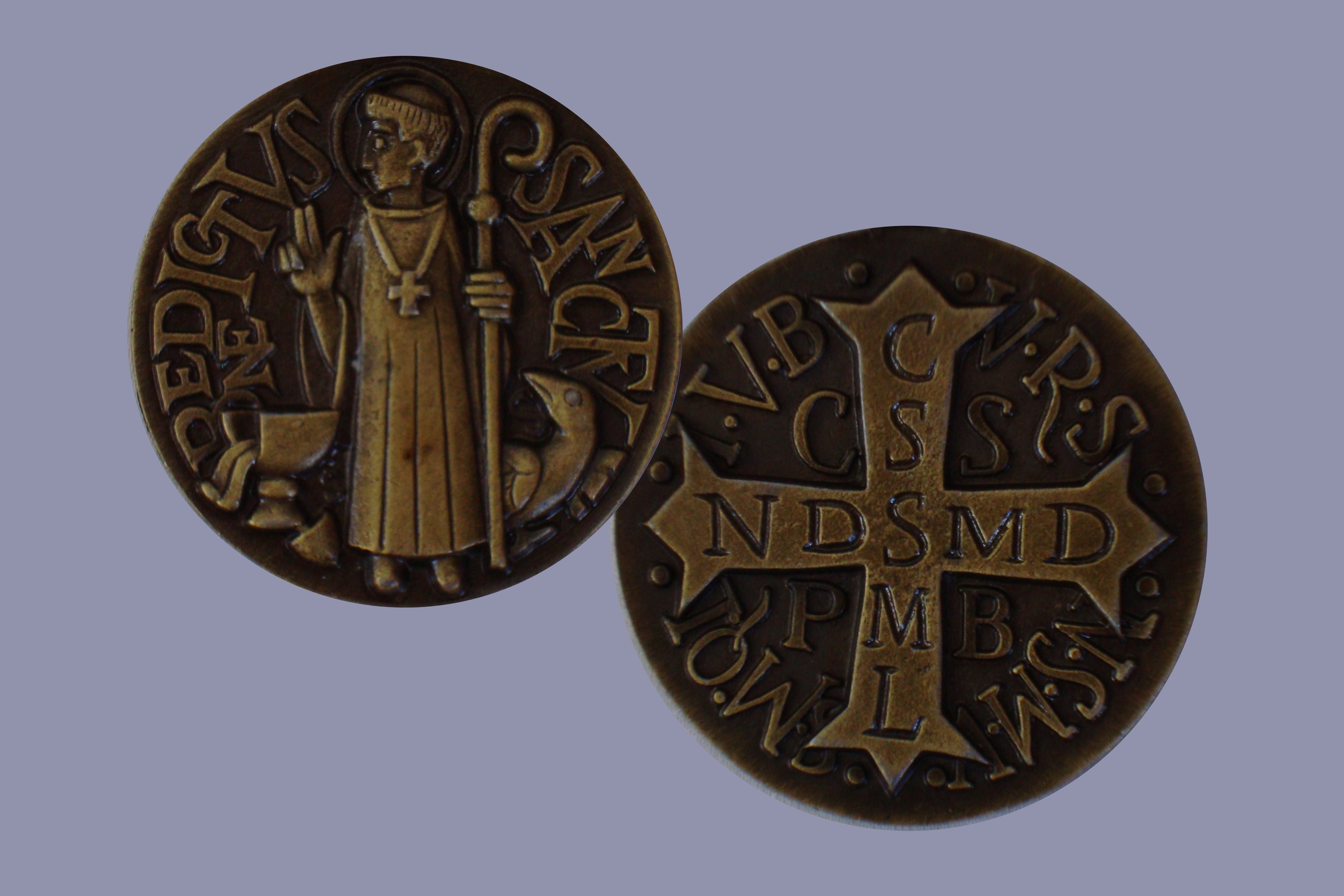 Saint Benedict Medal